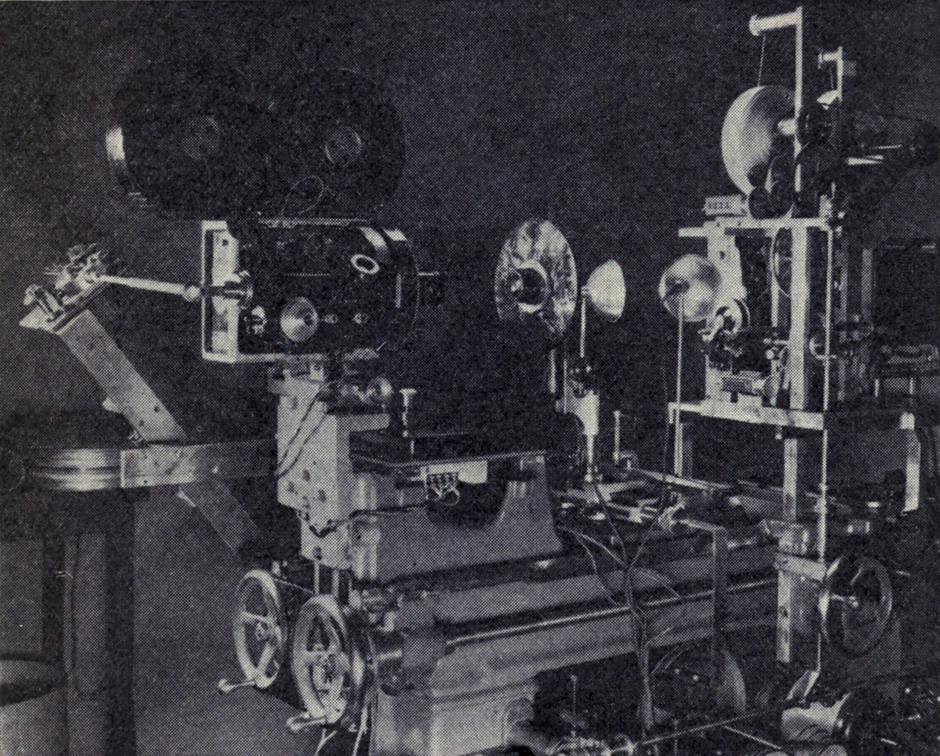 Optical printer by Carl Louis Gregory, rear side, March 1943